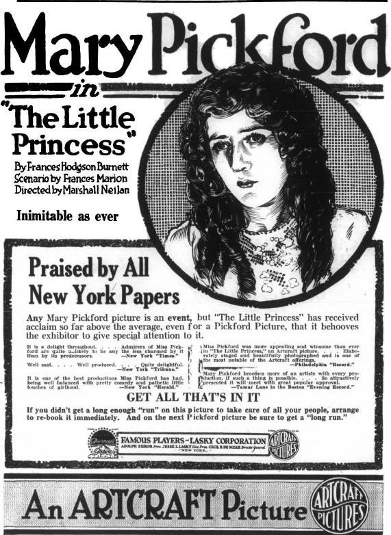 Advertisement for the American drama film The Little Princess (1917) with Mary Pickford, on page 46 of the November 23, 1917 Variety.